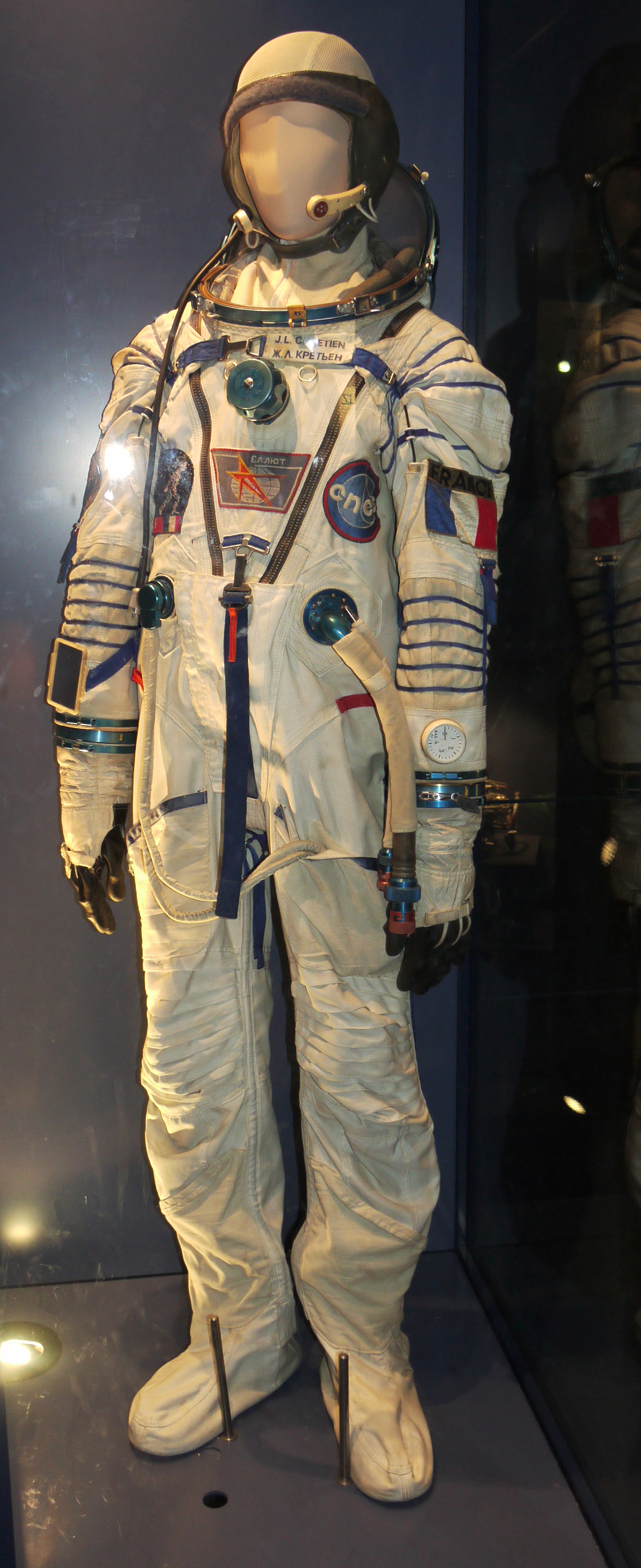 Russian space suit Sokol of JL Chrétien , Museum of Air and Space Paris, Le Bourget (France)